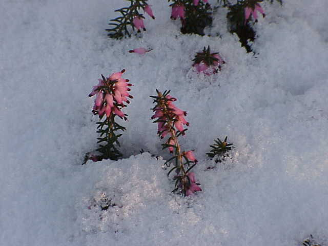 Species: Erica carnea Family: Ericaceae Image No. 1